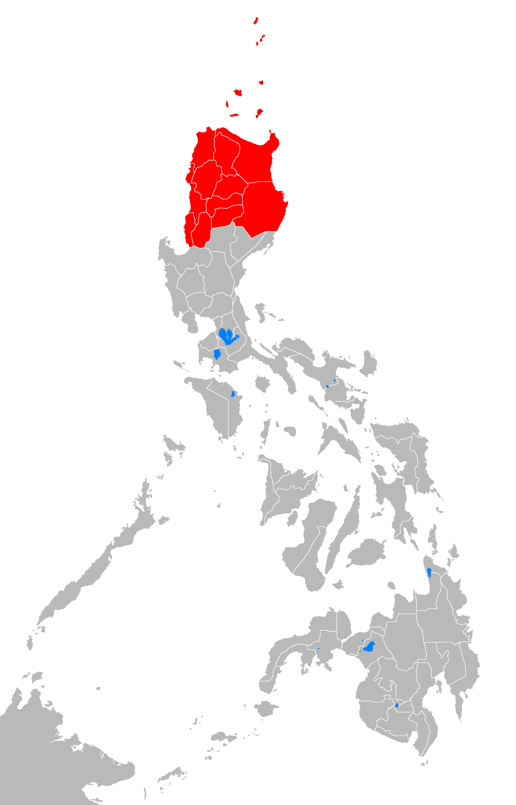 Provinces of the Philippines in which public storm signals were raised for preparations against Typhoon Florita.